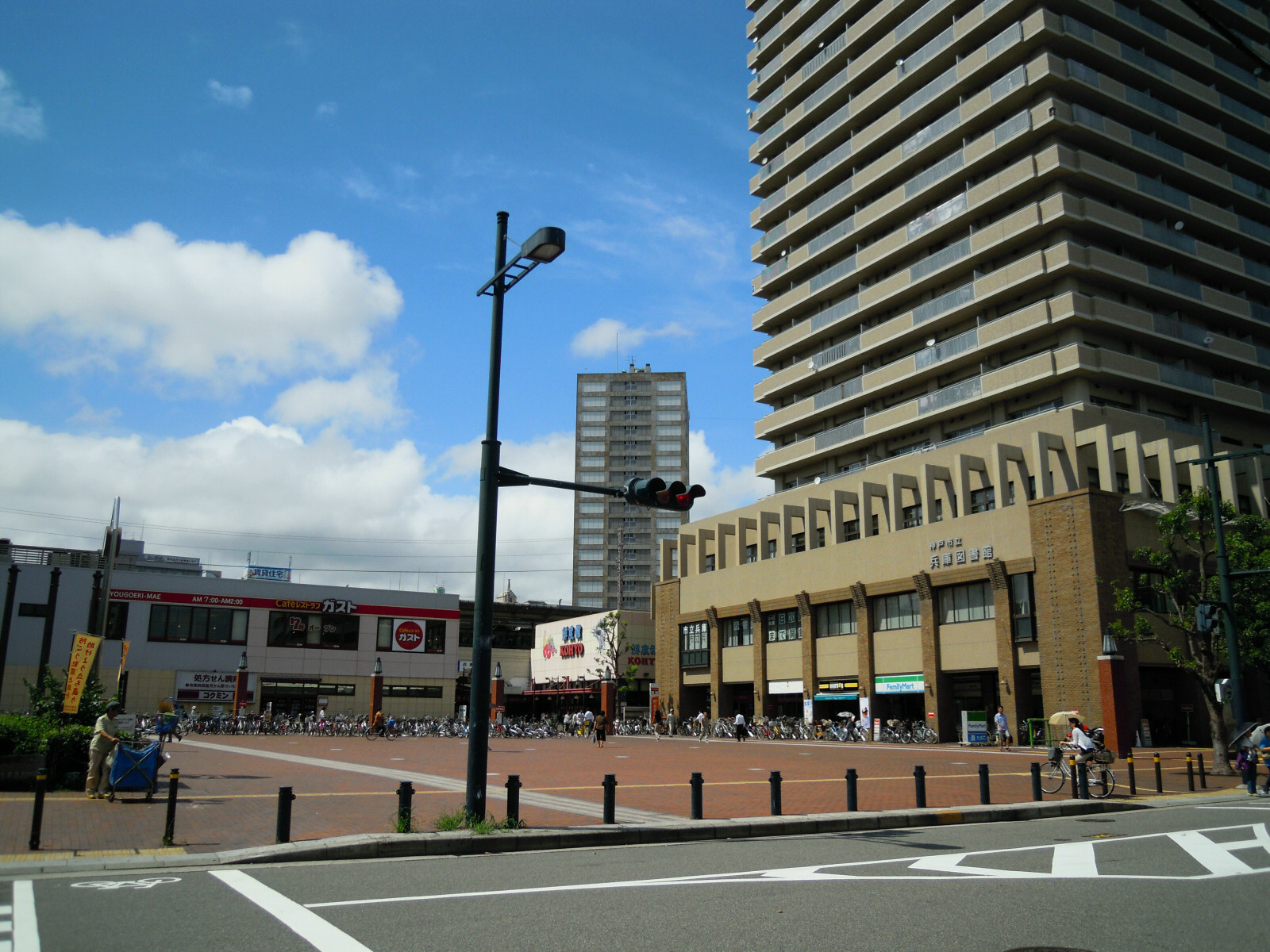 Kobe Municipal Hyogo Library, in front of JR Hyogo station